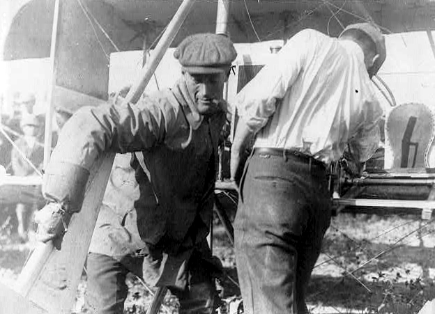 Cal Rodgers alighting from his airplane at the finish of his epochal transcontinental flight in "Vin Fiz".